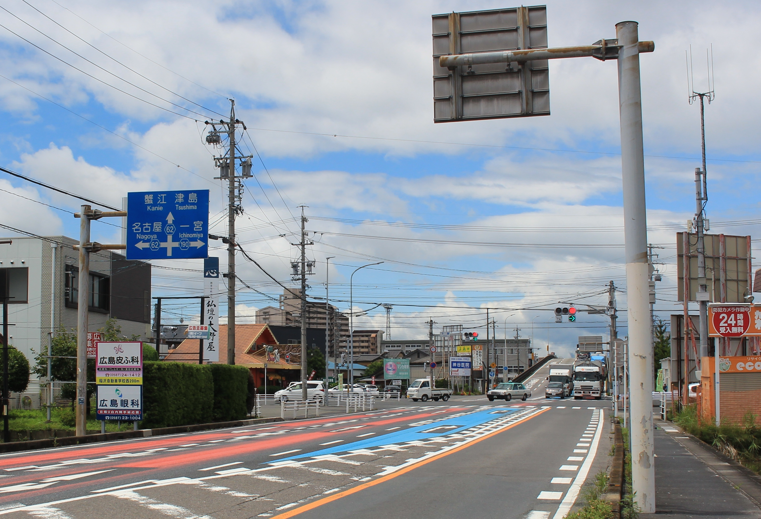 Aichi Prefectural Road Route 155 and Orizu Bridge in Orizukoidocho, Inazawa, Aichi prefecture, Japan.